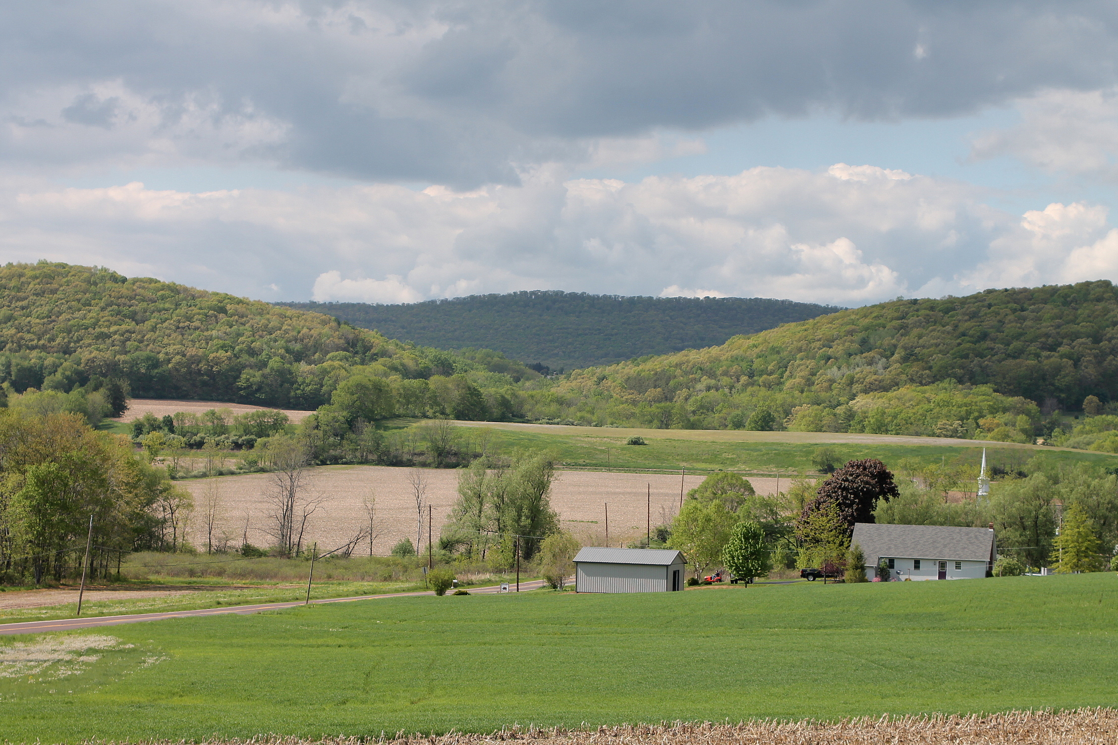 A view of North Centre Township, Columbia County, Pennsylvania looking north from Ridge Road. Summer Hill is the hill in the foreground and Knob Mountain is the hill in the background.